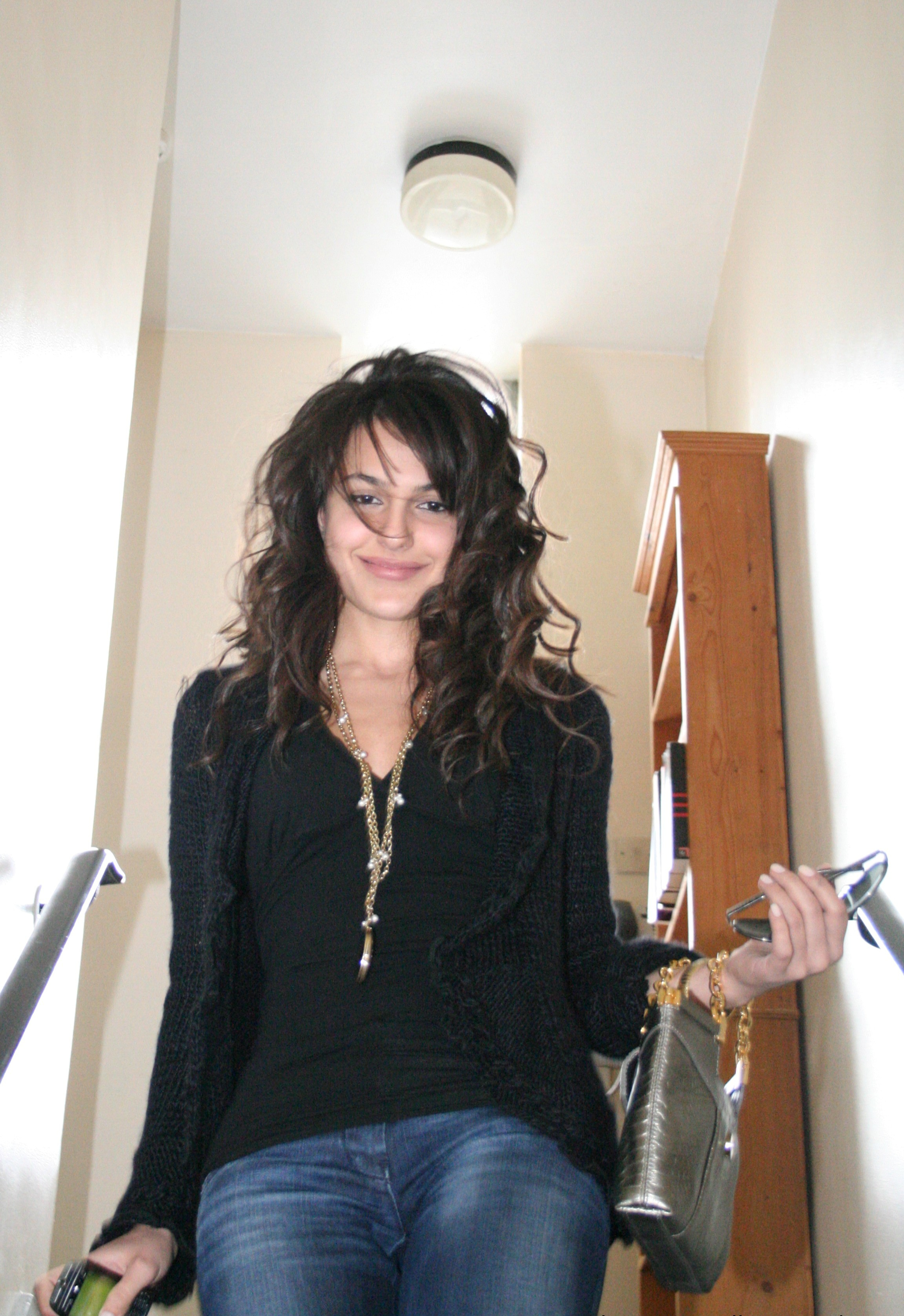 Sirusho, representative of Armenia in Eurovision Song Contest 2008. Taken in London, 2008.